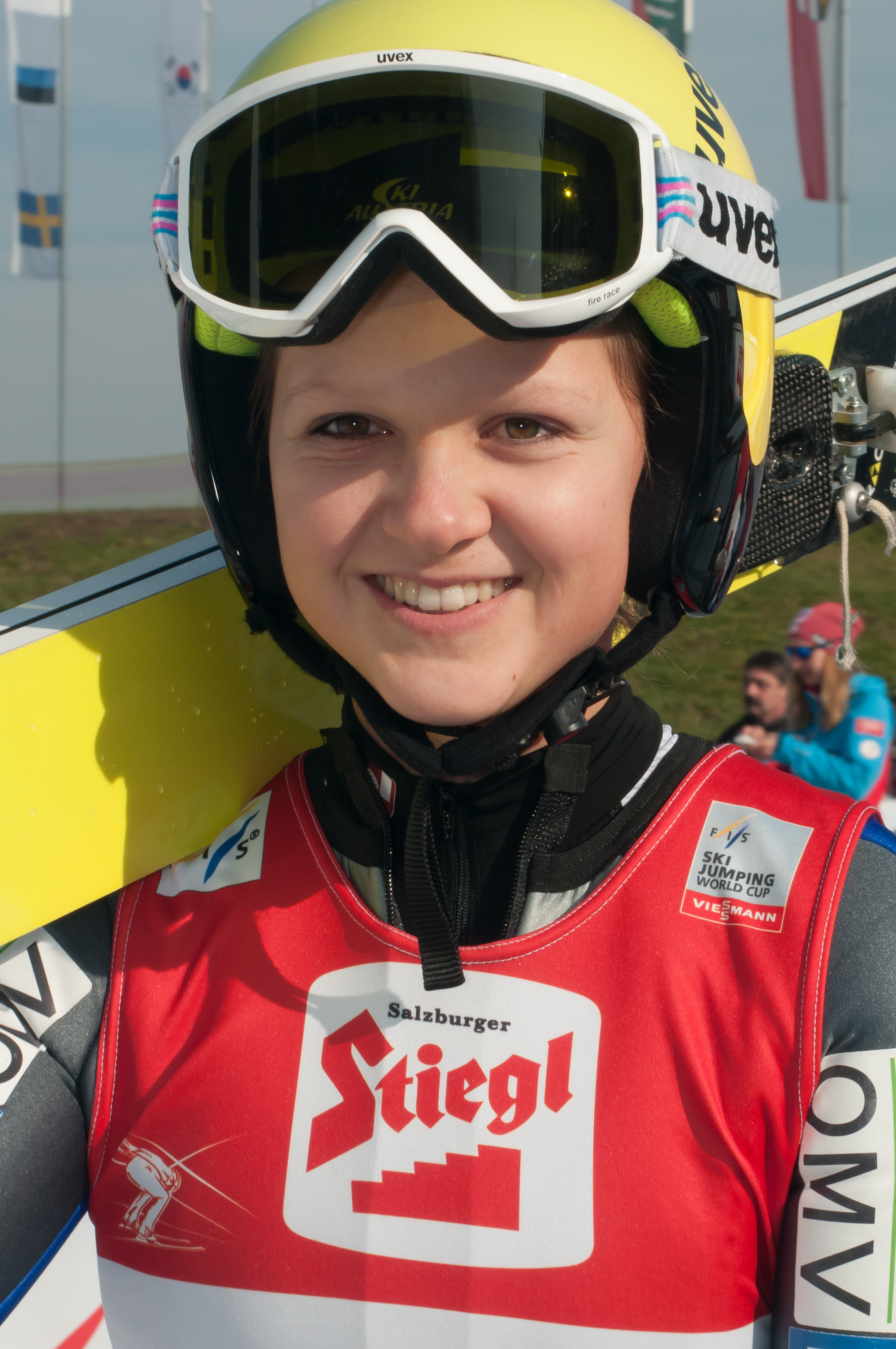 FIS Ski Jumping World Cup Ladies Hinzenbach 2016-02-07